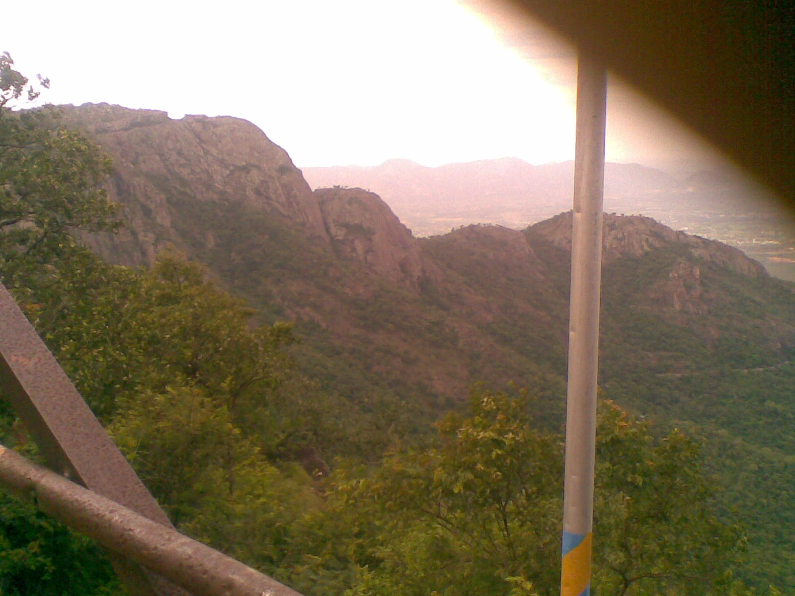 Hill range of Eparchean Unconformity rock formation